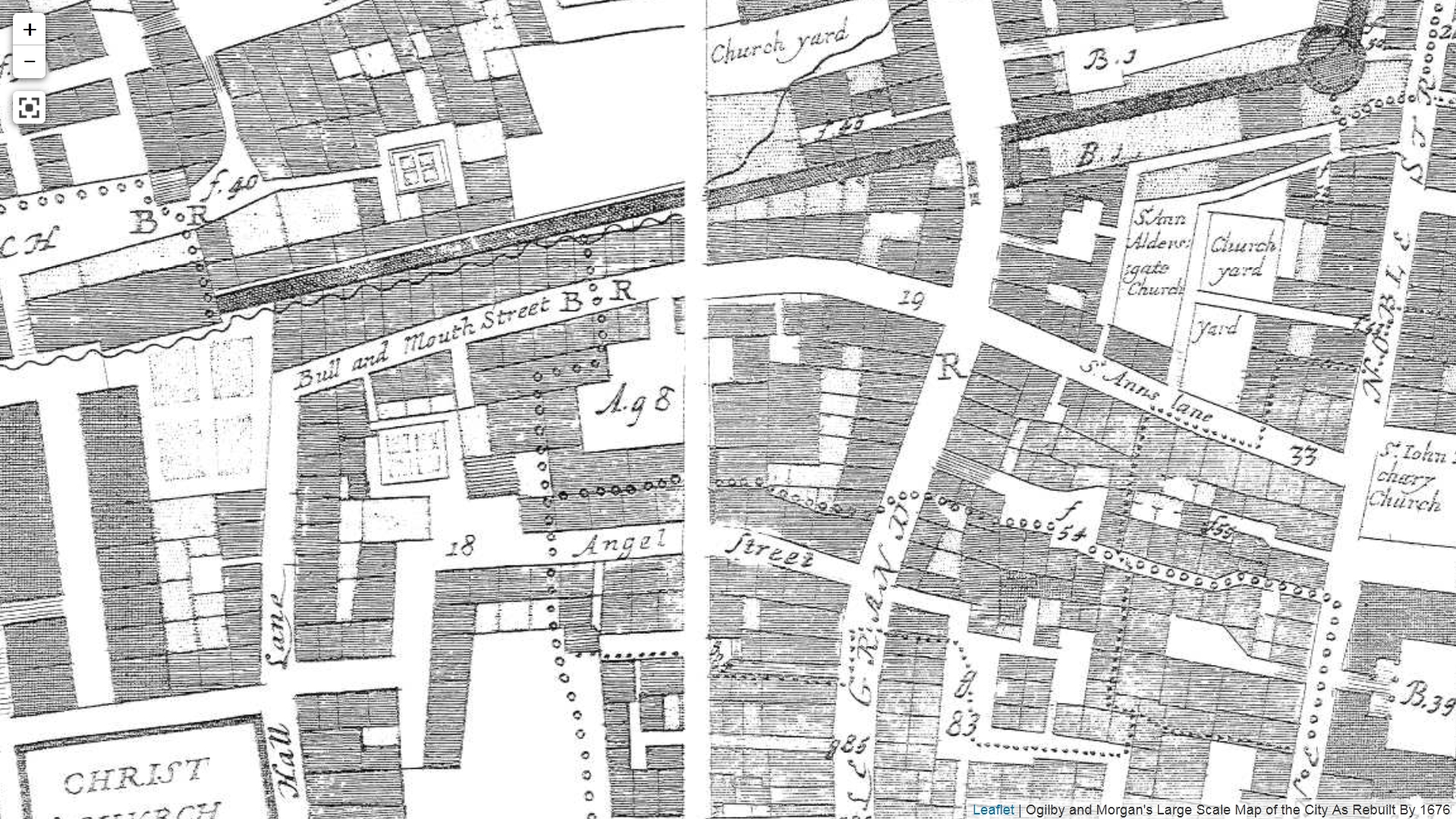 Ogilby and Morgan's Large Scale Map of the City As Rebuilt By 1676